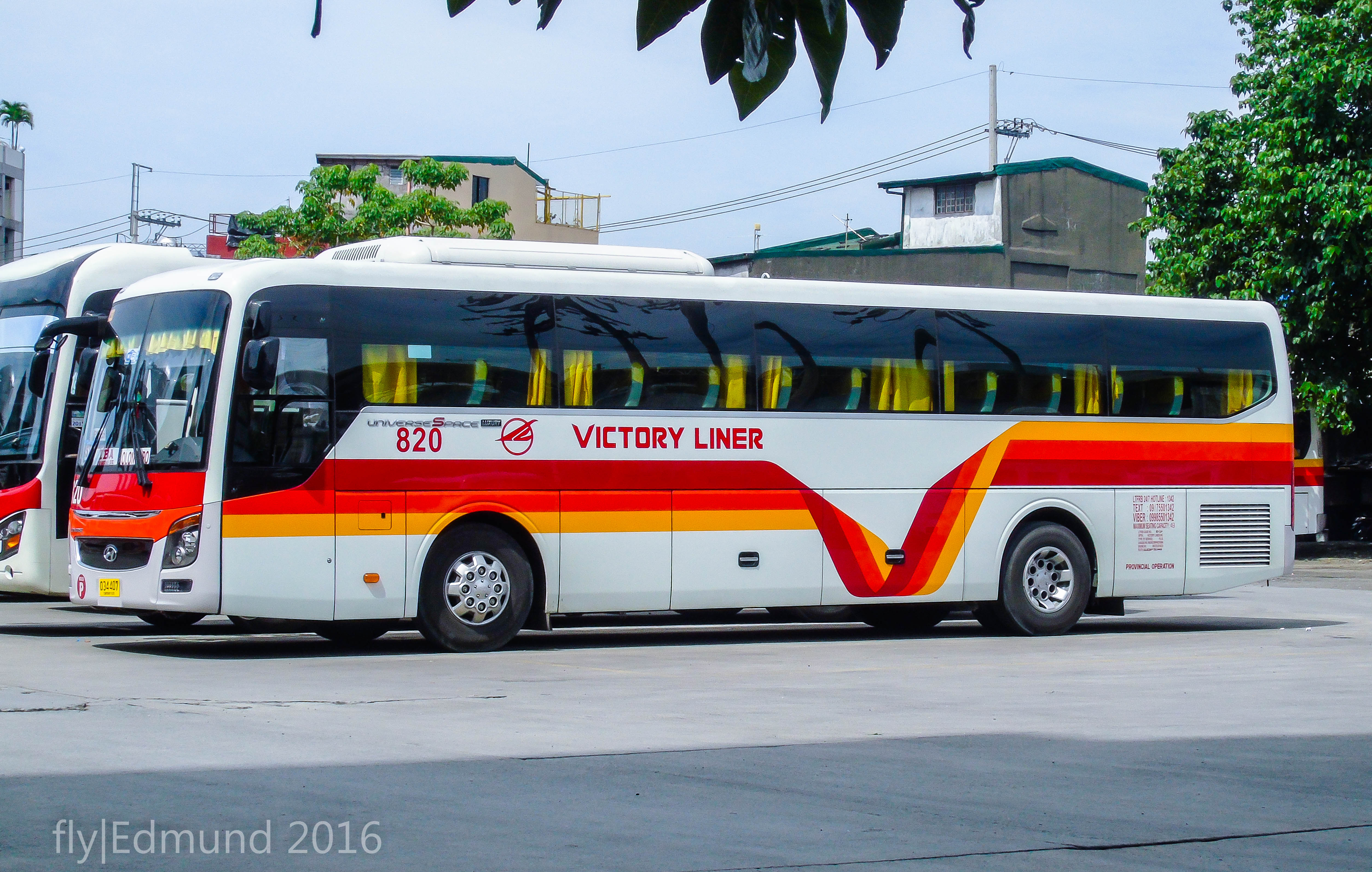 @Caloocan Motorpool, Monumento, Caloocan City